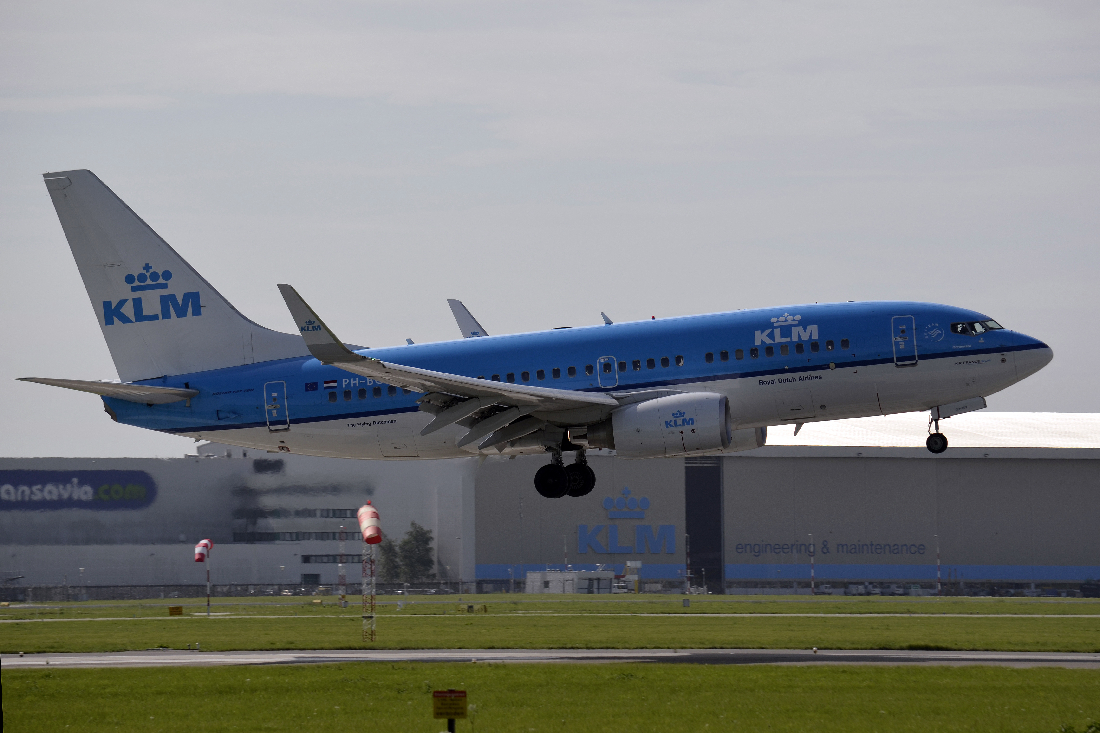 The flying dutchman